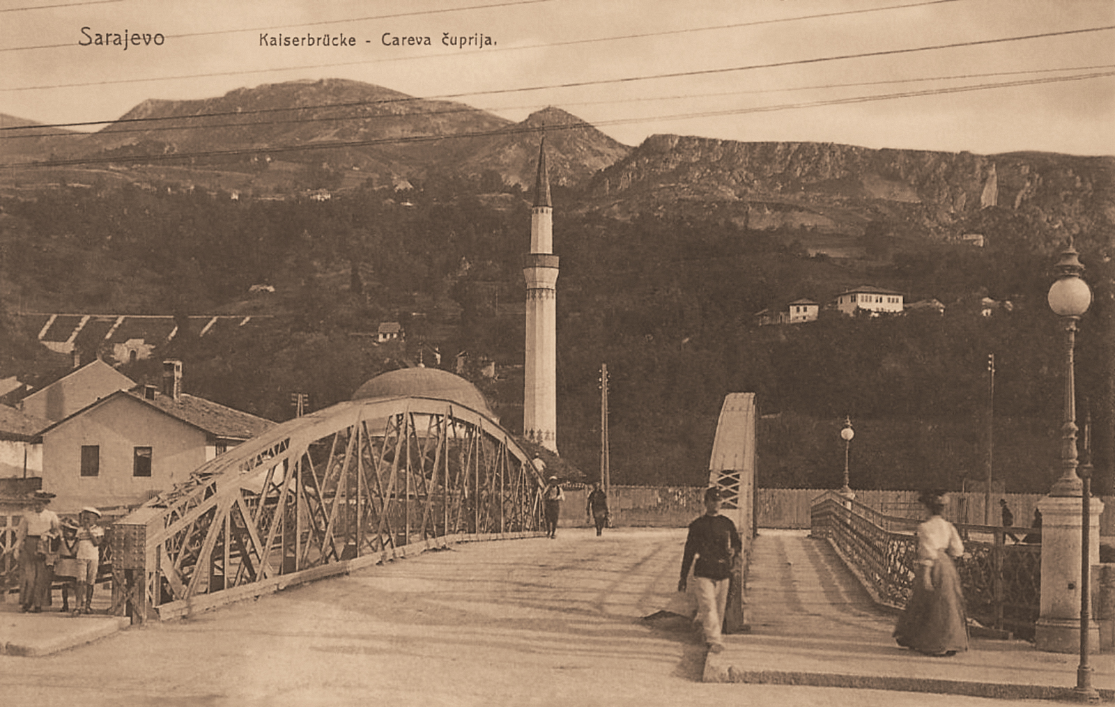 The Eiffel Bridge in Sarajevo built in 1893 during the Austro-Hungarian rule